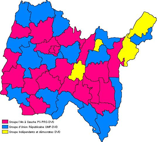 Political color of the Conseillers généraux de l'Ain elected in march 2008